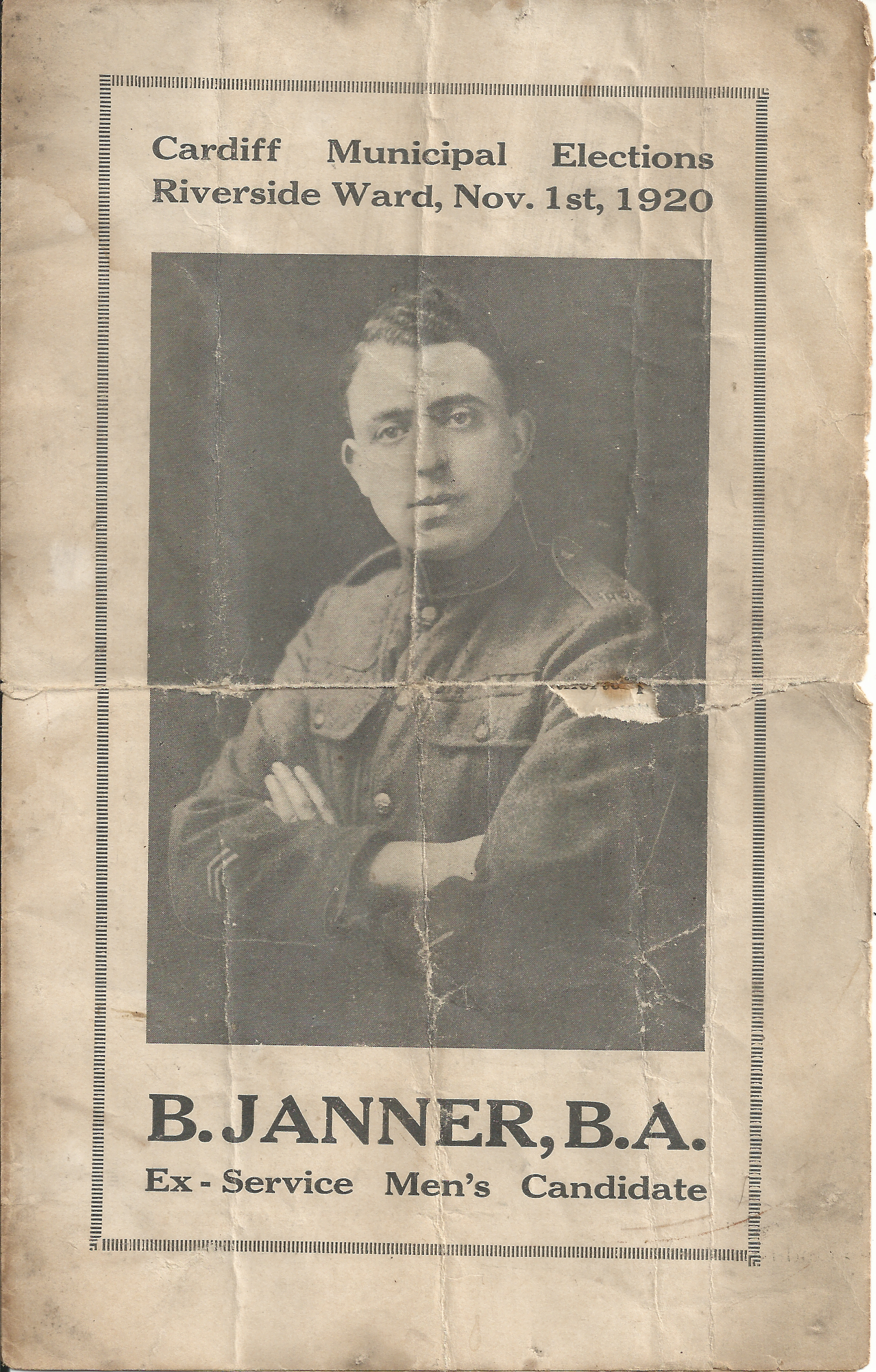 Baron Janner of Liecester.